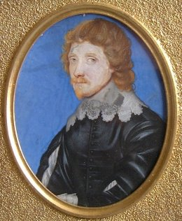 A miniature of John Leslie.